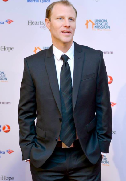 Ryan O'Quinn, red carpet, Hearts for Hope Gala.